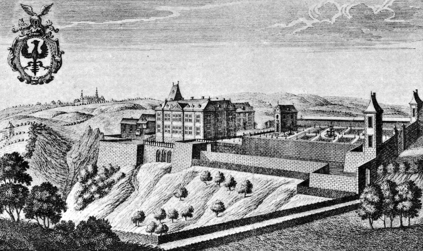 Gravure du château d'Aigremont à Flémalle-Awirs, Belgique